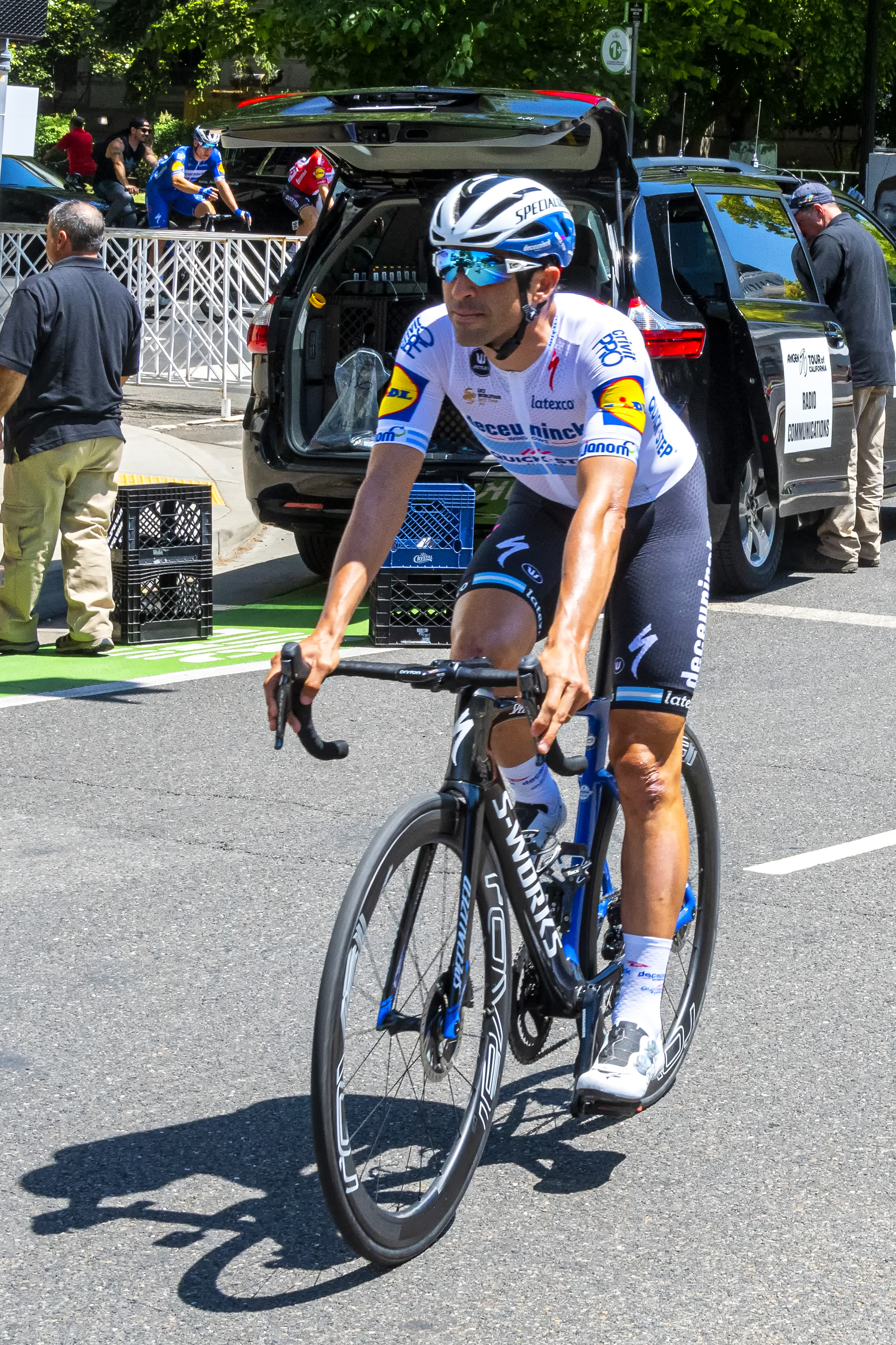 Amgen Tour of California 2019 Stage 1 Sacramento- Sacramento Road Race Sunday May 12 UCI World Tour